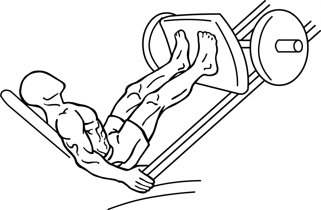 an exercise of thigh